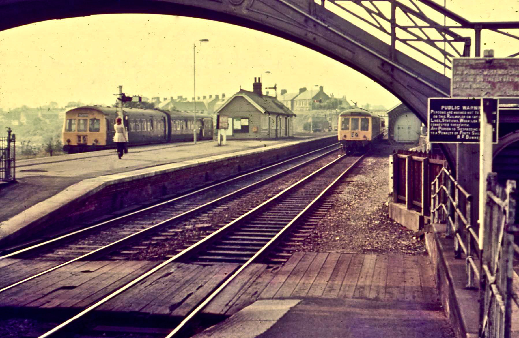 September 1973